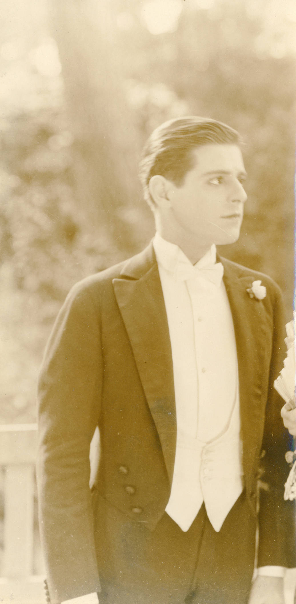 Joseph Striker, silent film actor Subjects: actors